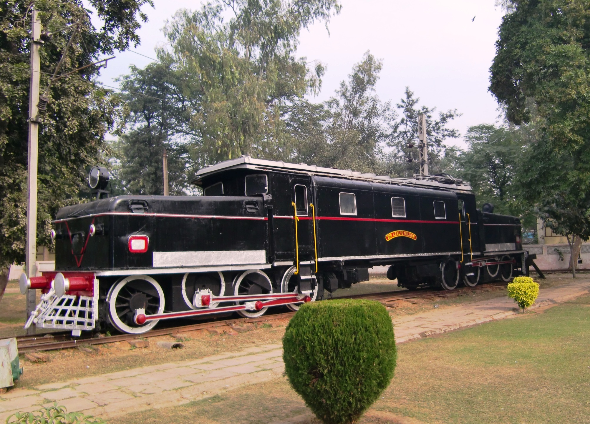 Old electric locomotive 4502, named Sir Leslie Wilson, built 1928, 1500vD.C. 650hp